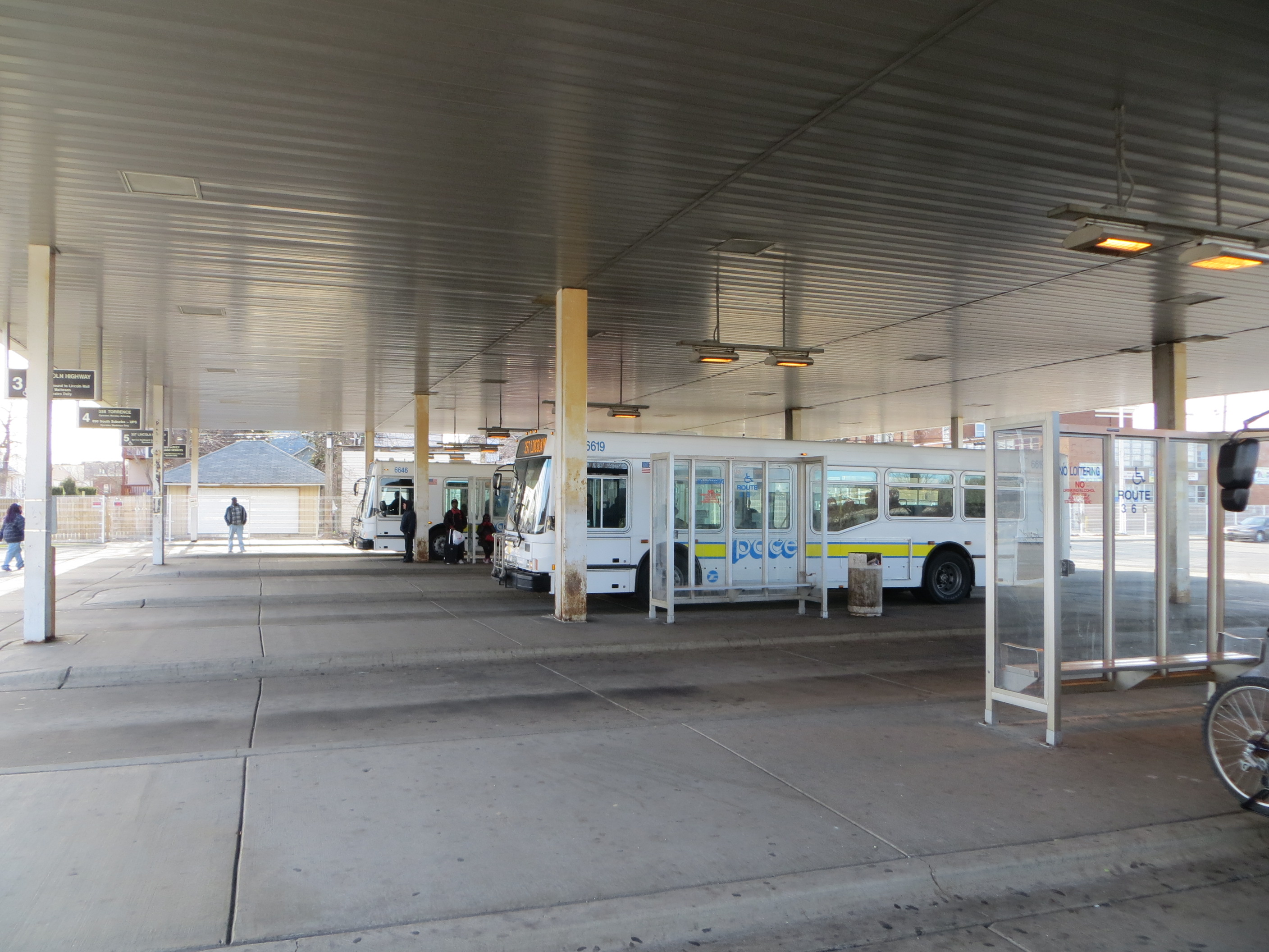 20130403 24 Pace Chicago Heights bus terminal